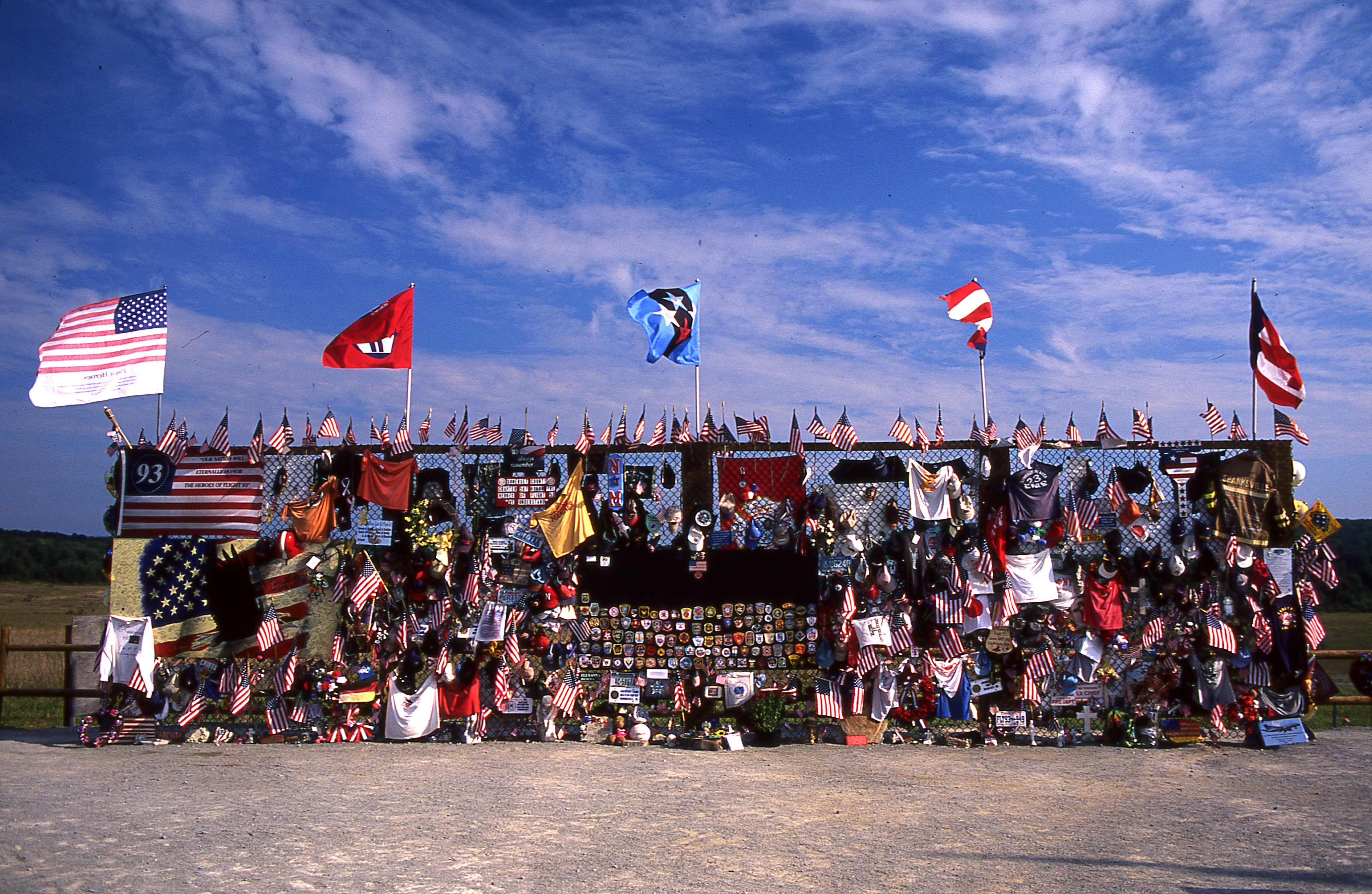 Flight 93 National Memorial wall of tributes.